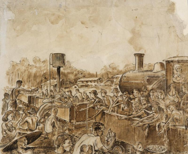 On arrival at the staging post near Bangkok, the next phase of the journey was often on foot, marching along newly-established tracks to increasingly distant work camps along the railway trace. Where possible, river transport was used as an effective alternative to difficult overland travel. image: open-topped train carriages containing prisoners-of-war, many of whom are holding out their arms for food from the people by the side of the railway, who are in the bottom left of the composition. A steam engine is directly behind the carriage to the right and there are buildings and trees in the background.